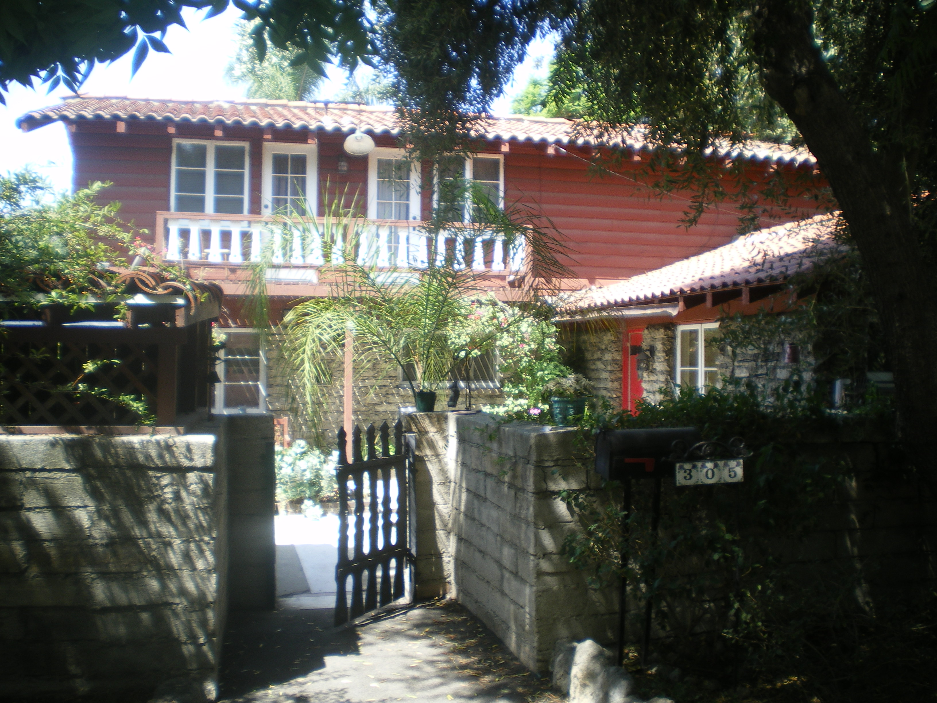 House at 305 South Mills Avenue in the Russian Village District — historic district in Claremont, Los Angeles County, California.